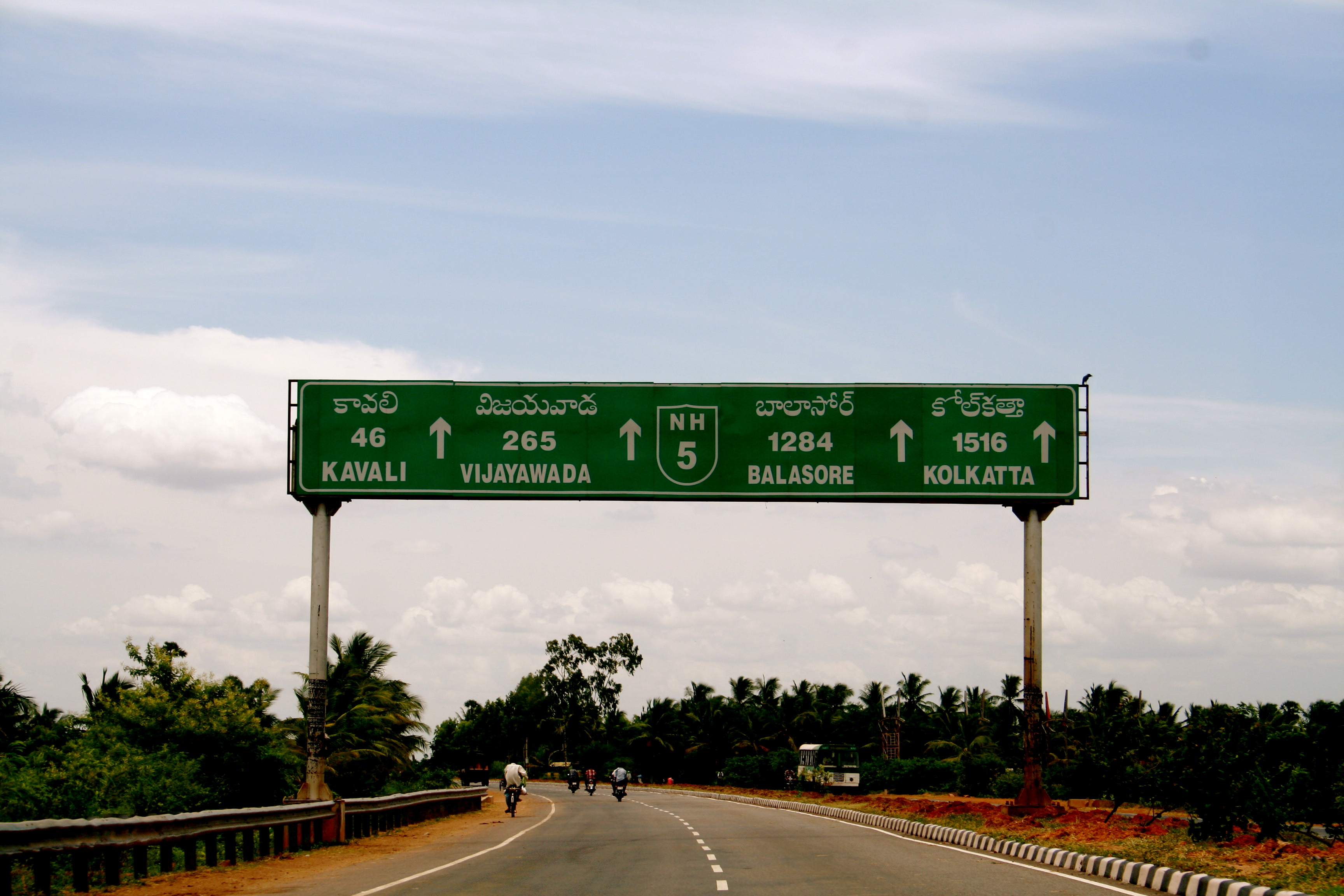 NH5 4-lane east coast Deccan National highways of India